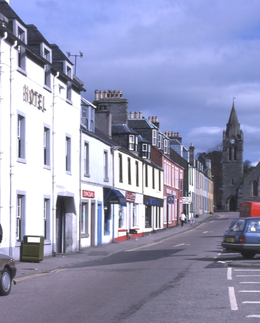 Lochgilphead